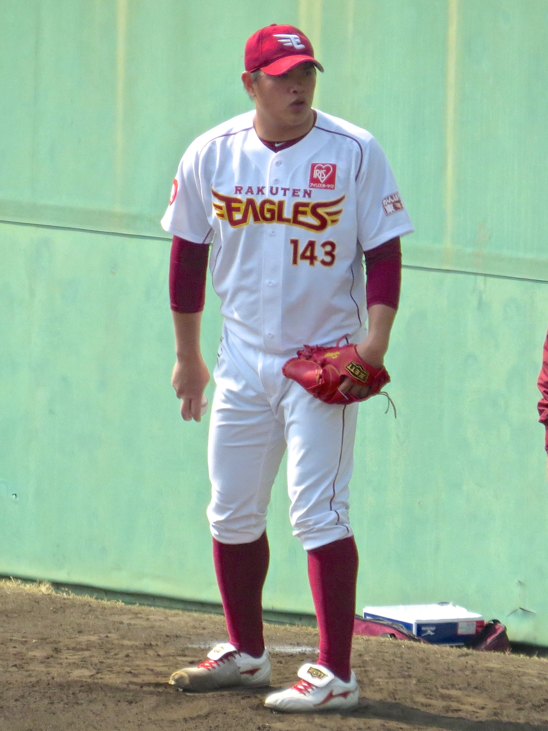 Chia Hao Sung, pitcher of the Tohoku Rakuten Golden Eagles, at Saitama Municipal Urawa Baseball Stadium